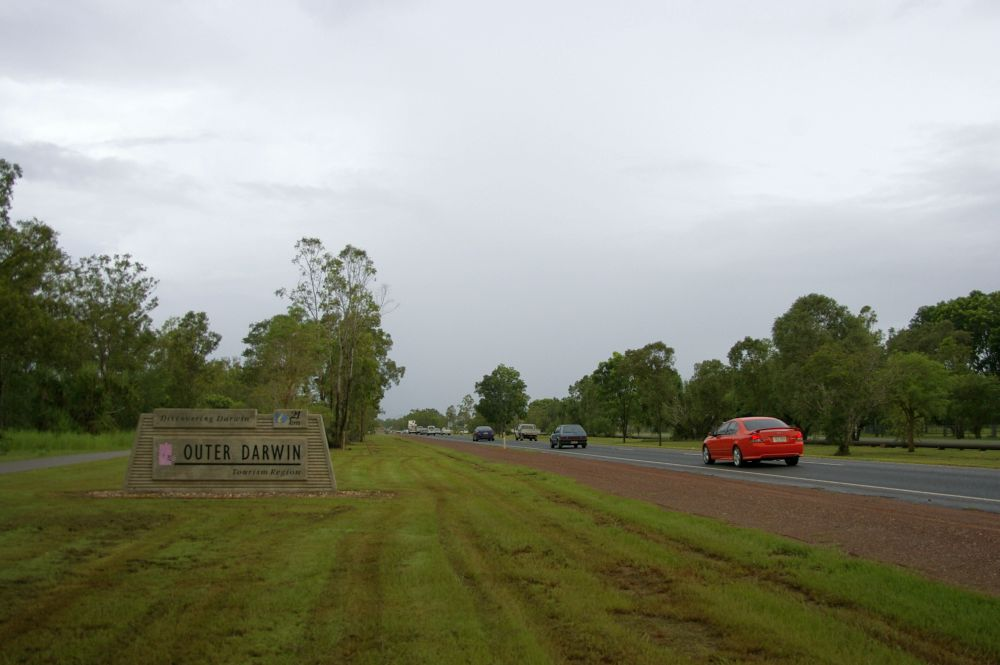 Outer Darwin sign next to the Stuart Highway